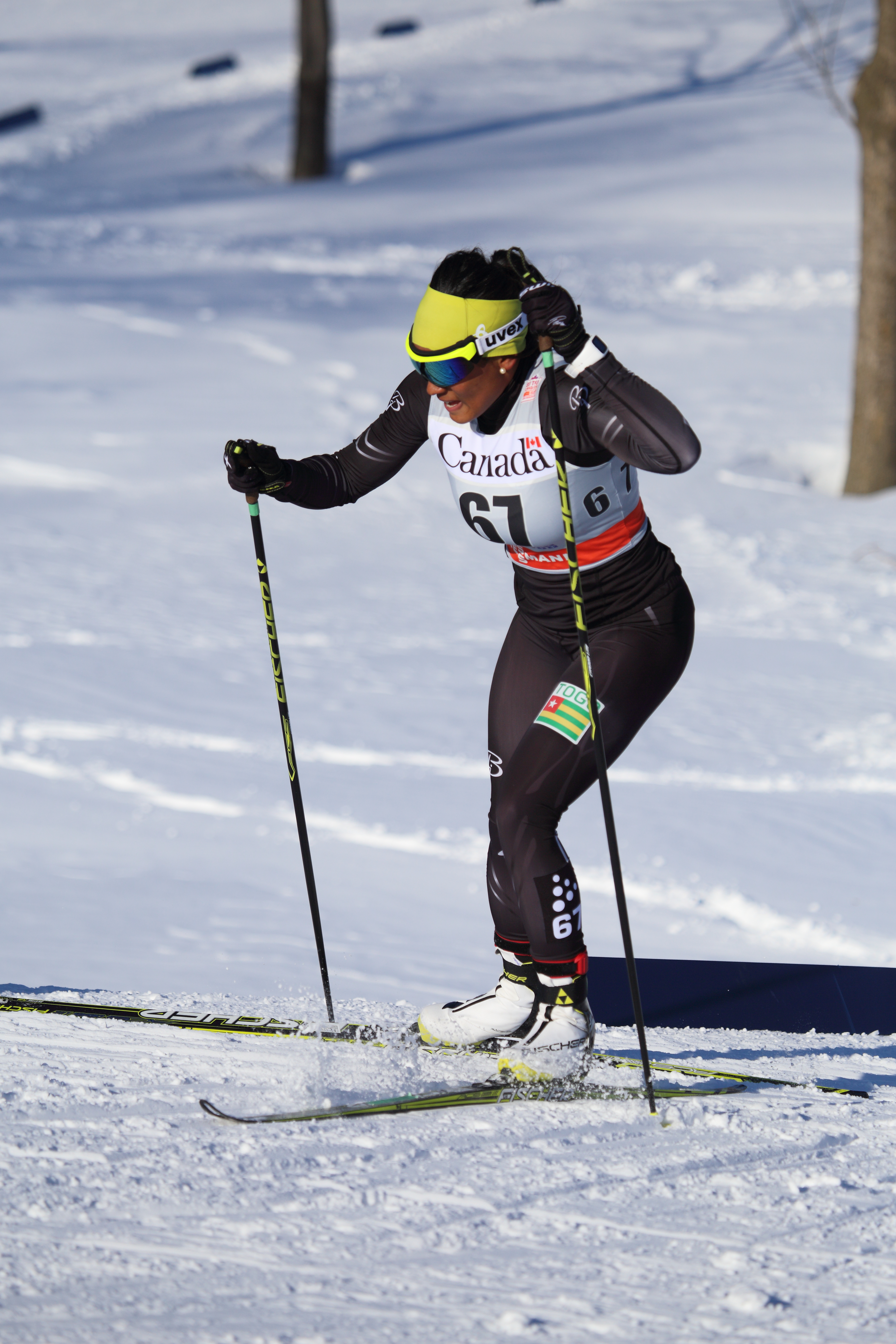 Mathilde-Amivi Petitjean at Ski Tour Canada 2016, Quebec city